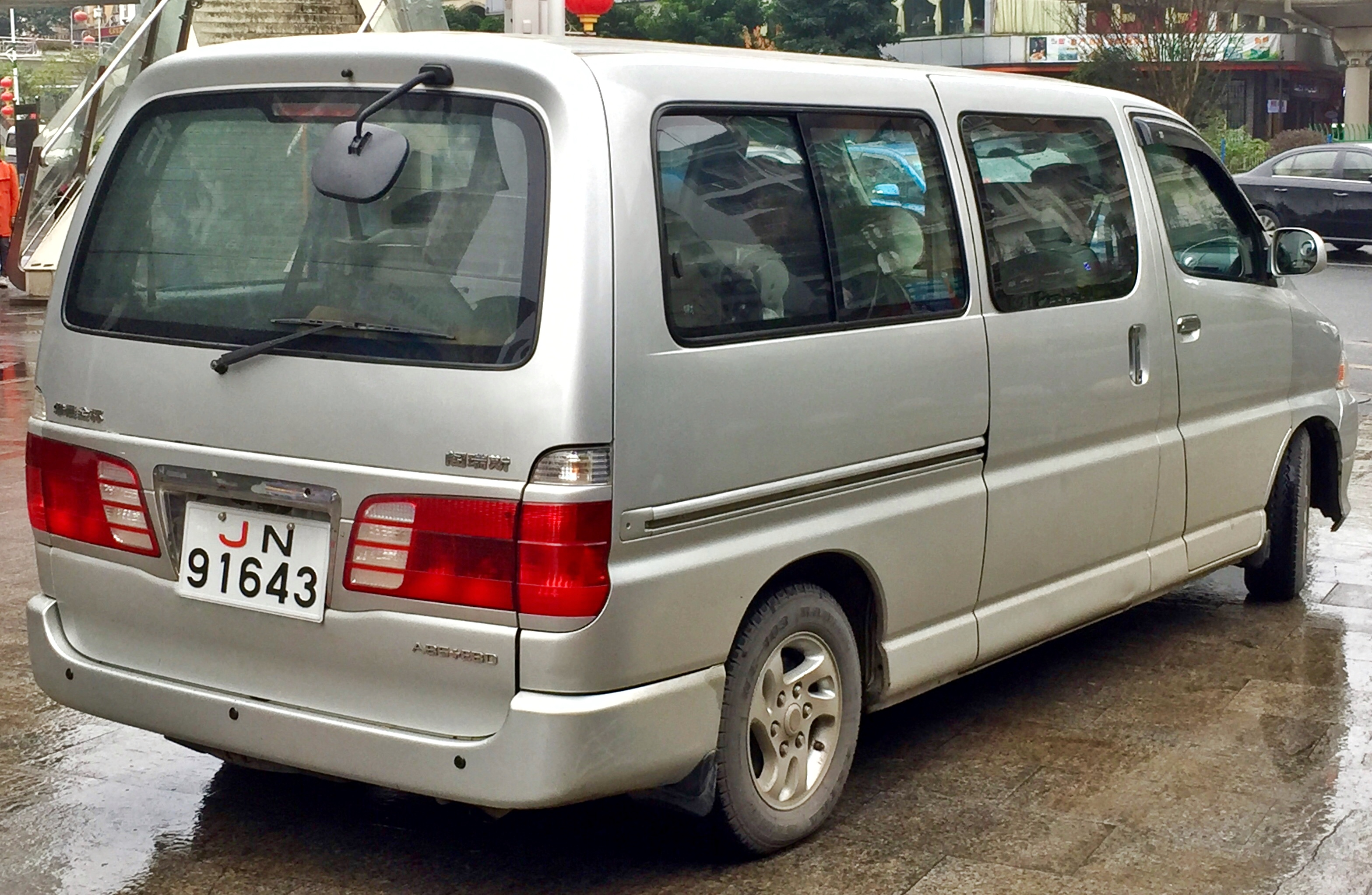 A 2005 Brilliance Jinbei Granse photographed in Shaoguan, Guangdong province, China. 中文（中国大陆）: 一辆2005年的华晨金杯阁瑞斯，拍摄于中国广东省韶关市。